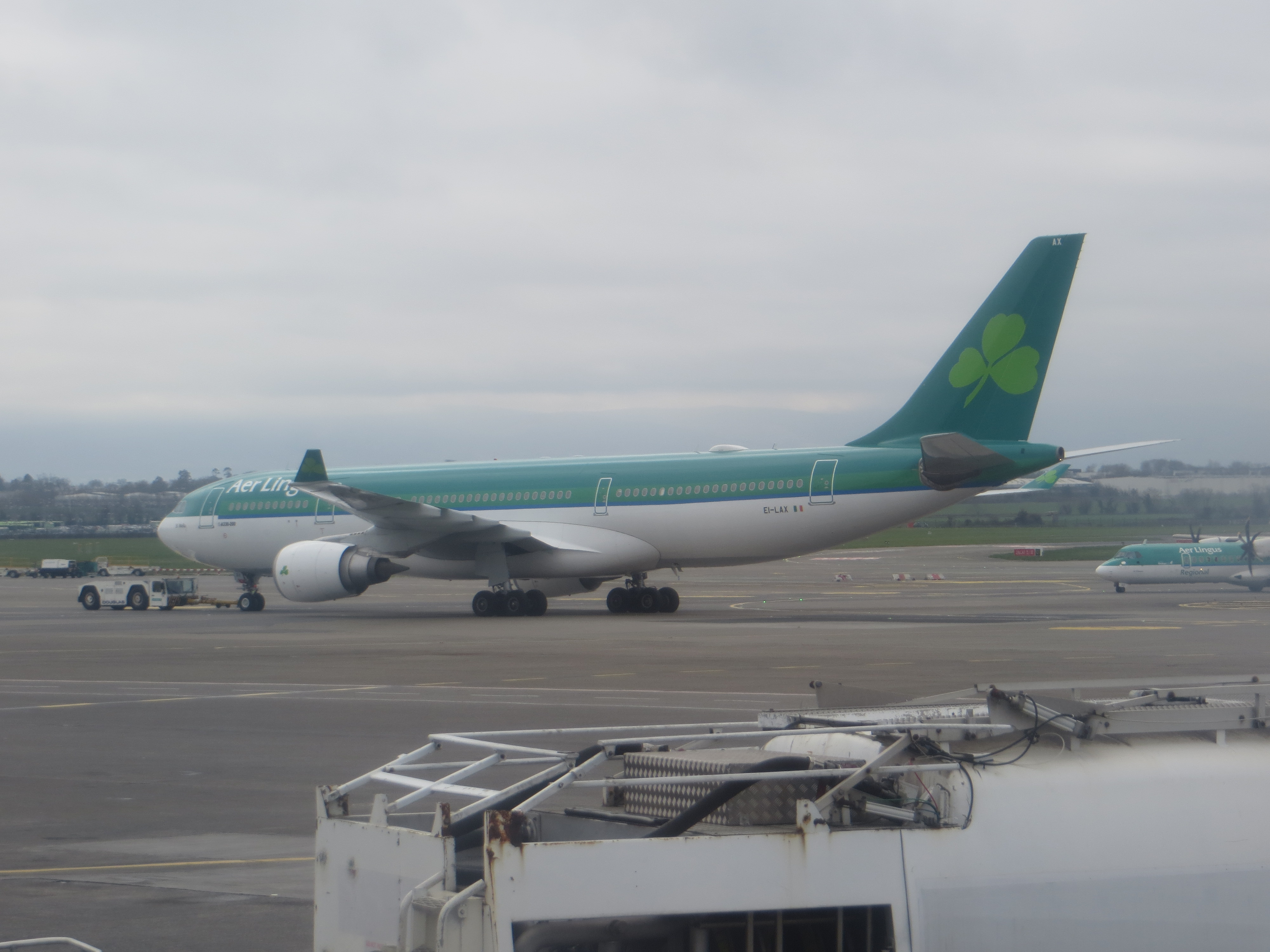 An Aer Lingus Airbus A330-200 at Dublin (DUB).